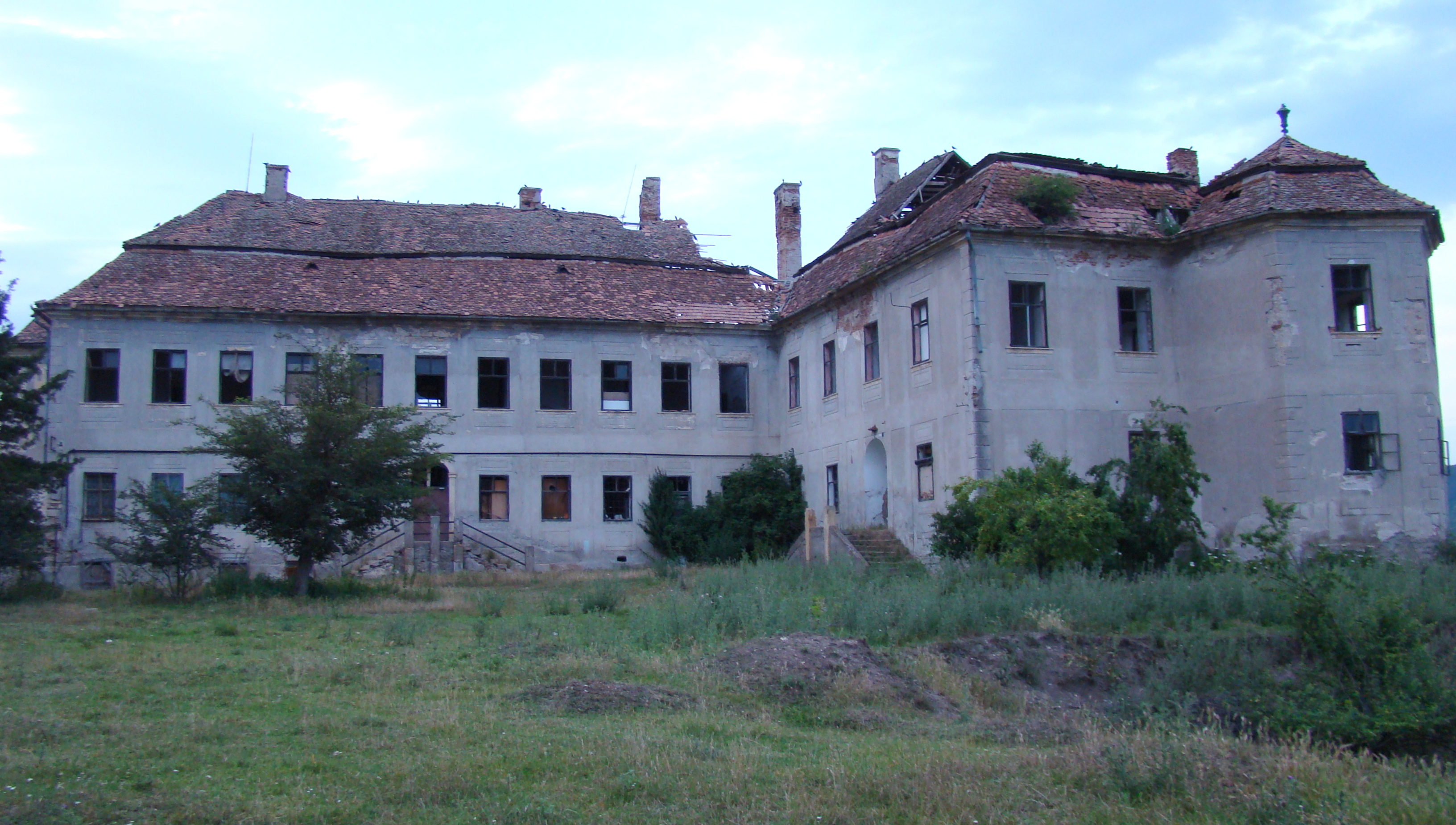 Kemény-Bánffy castle in Luncani, Cluj county, Romania